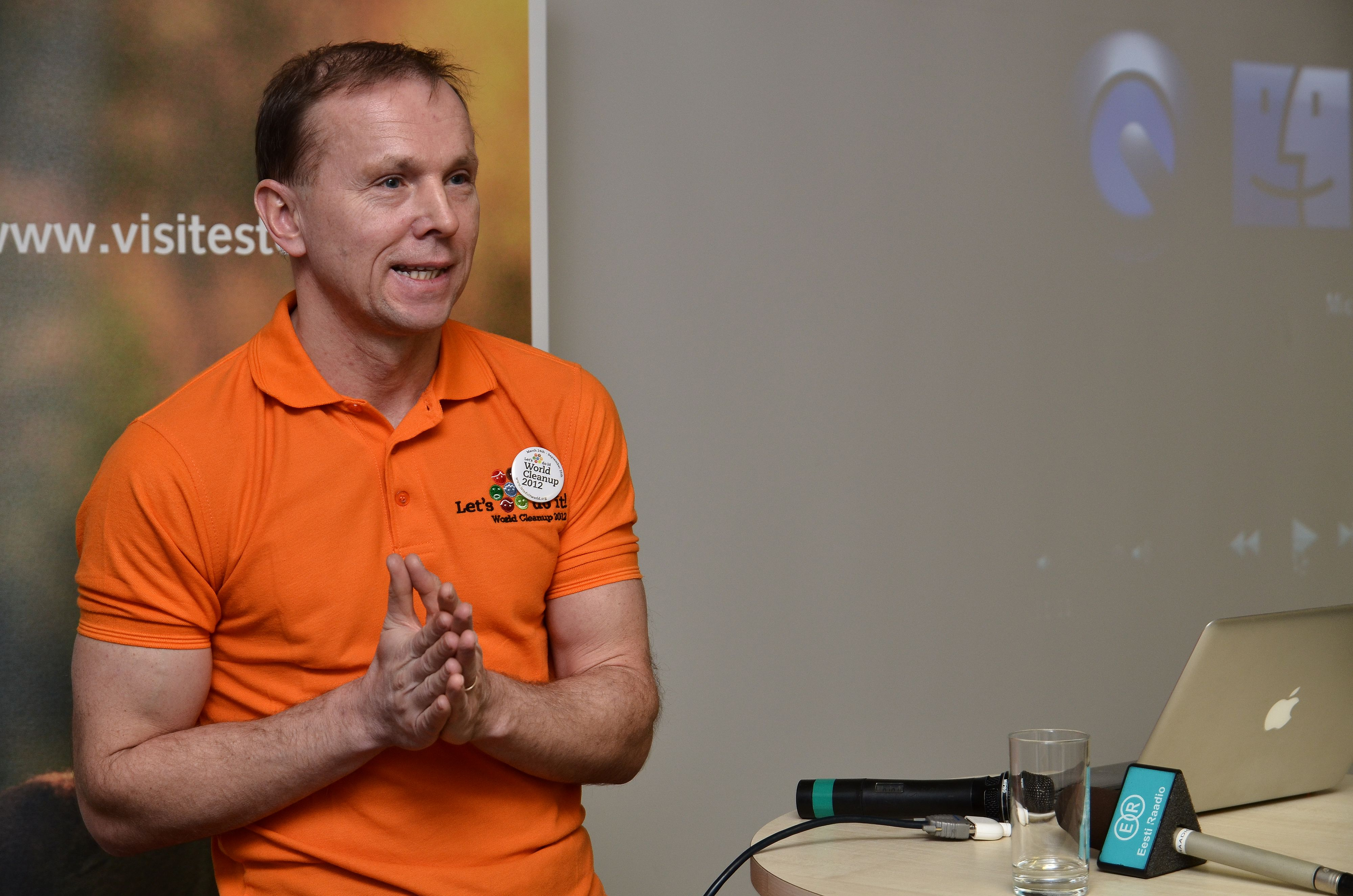 Estonian entrepreneur and nature protector Rainer Nõlvak, at the Let's Do It! World Cleanup 2012 Conference in Tallinn.